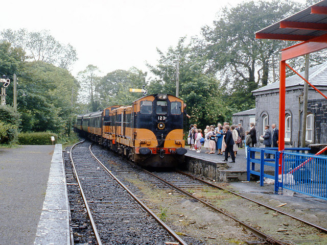 Special passenger train at Gort station. A Ballybrophy - Claremorris special passenger service enters Gort station headed by a pair of CIE 121 class diesel locomotives.